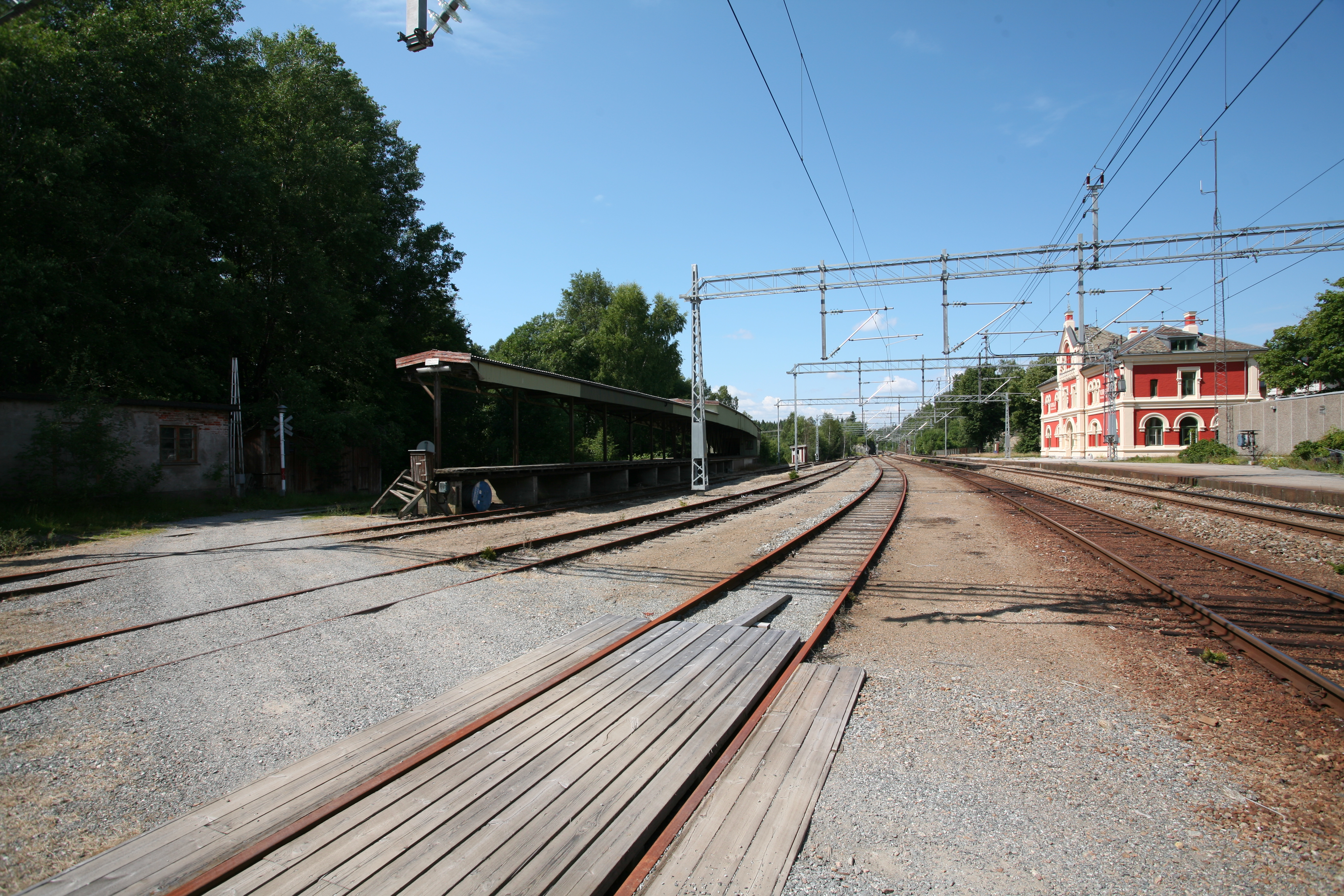 Picture of Kornsjø Railway Station (Norway)